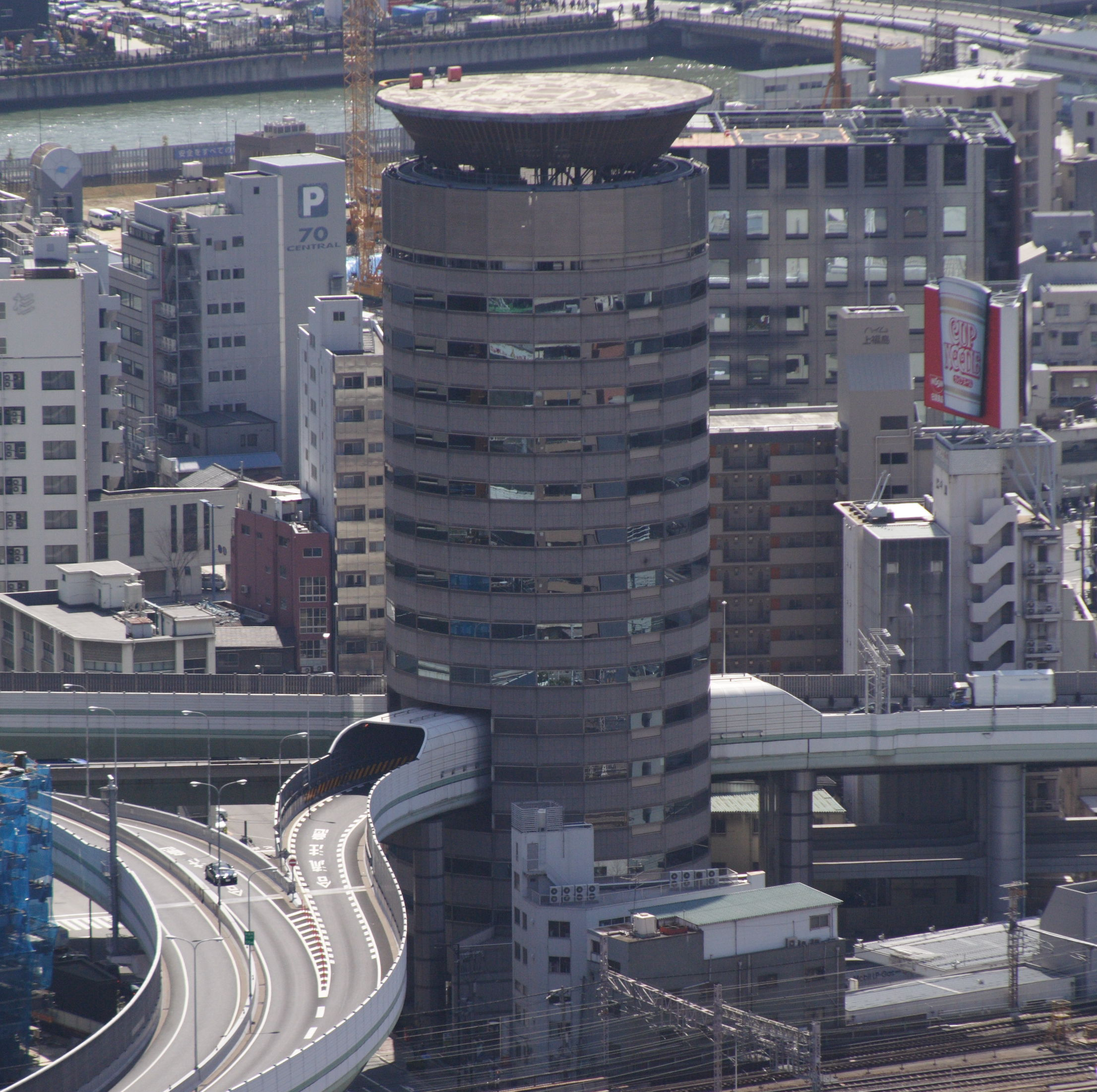 The Gate Tower Building, aka "Bee Hive" in Fukushima-ku, Osaka City, Japan. Owned by Suezawa Sangyo Co., Ltd., the building has been designed by Azusa Sekkei Co., Ltd. and built by Sato Kogyo Co., Ltd. in 1992. When the owner decided to rebuild his building, there was a plan that the exit of Hanshin expressway occupy this area. The owner did not want to sell his land to the Hanshin Expressway Company so it ended up with this road-combined building. Link to Google Maps